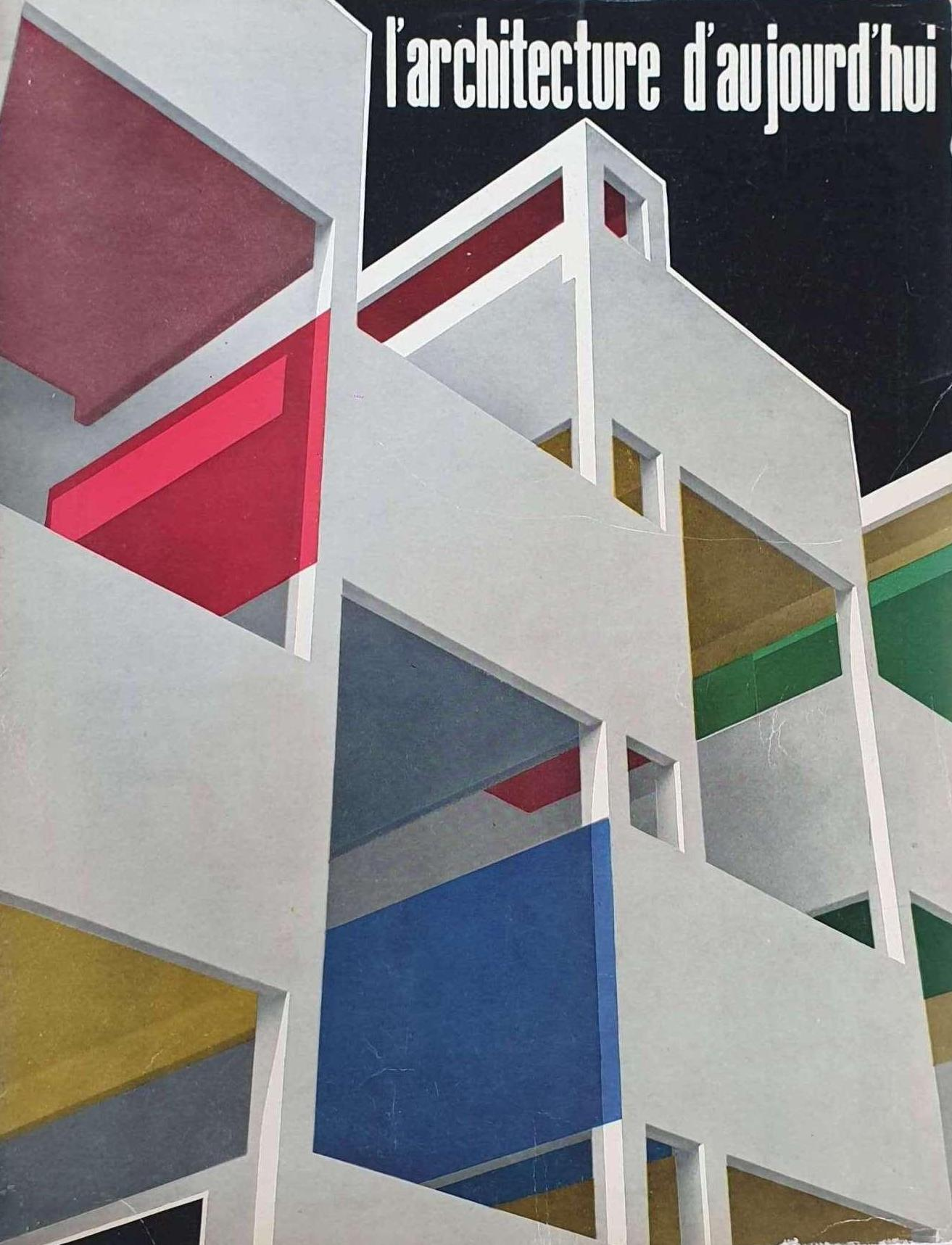 L'Architecture d'Aujourd'hui cover December 1954 featuring Nid D'Abeille by George Candillis, Alexis Josic and Shadrach Woods of GAMMA